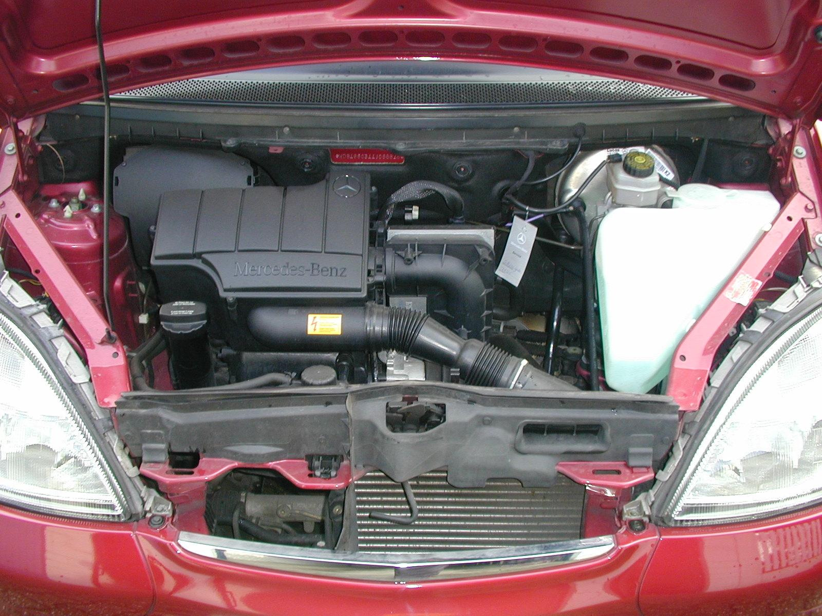 Mercedes W168 A-Class A-Klasse Engine A140